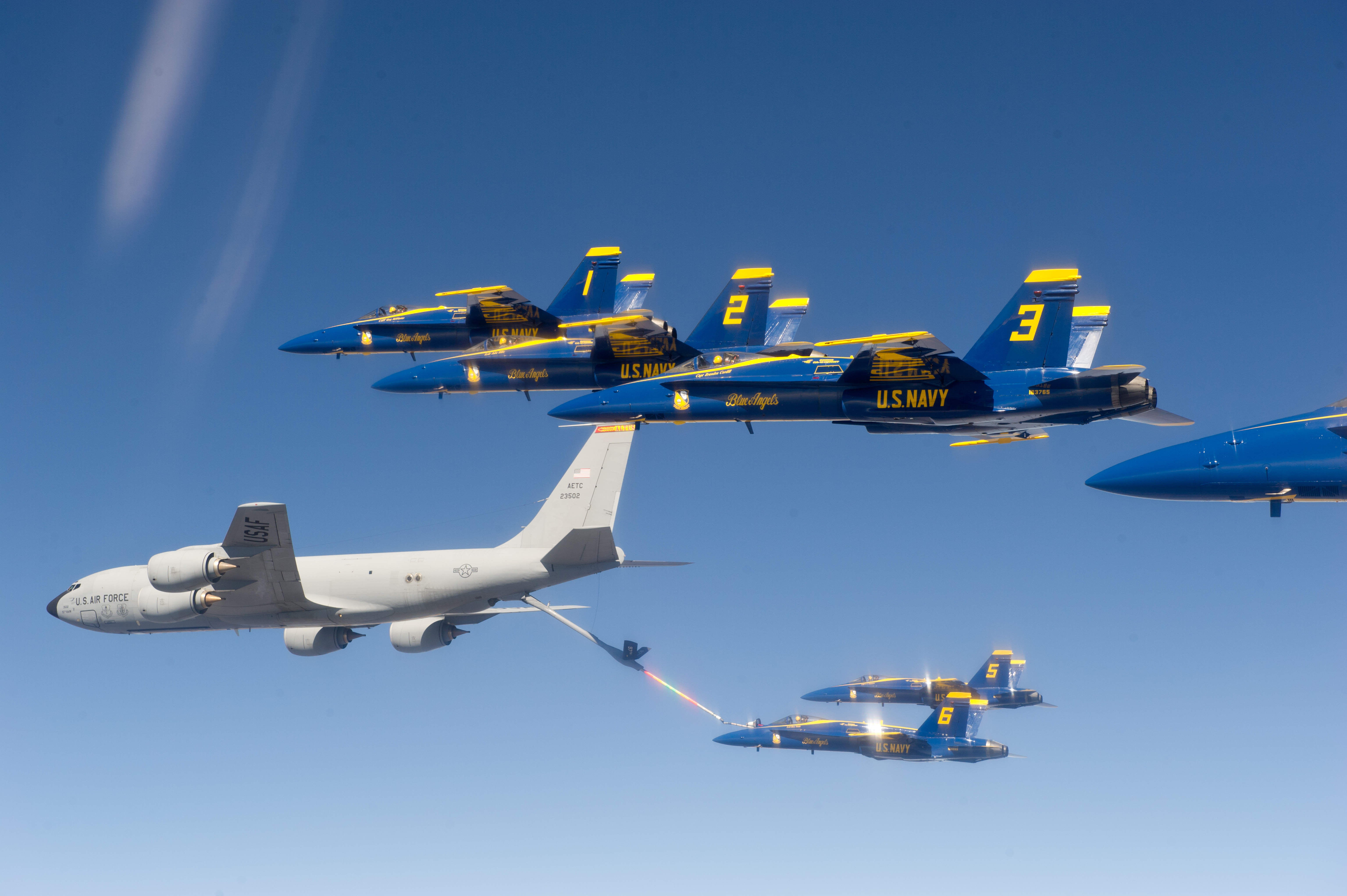 GRAND JUNCTION, Colo. (Sept. 19, 2012) F/A-18 Hornets assigned to the U.S. Navy Flight Demonstration Squadron, the Blue Angels, conduct an aerial refueling evolution with a KC-135 Stratotanker from the 97th Air Mobility Wing out of Altus Air Force Base, Okla. (U.S. Navy photo by Mass Communication Specialist 2nd Class Andrew Johnson/Released) 120919-N-BA418-023 Join the conversation navylive.dodlive.mil